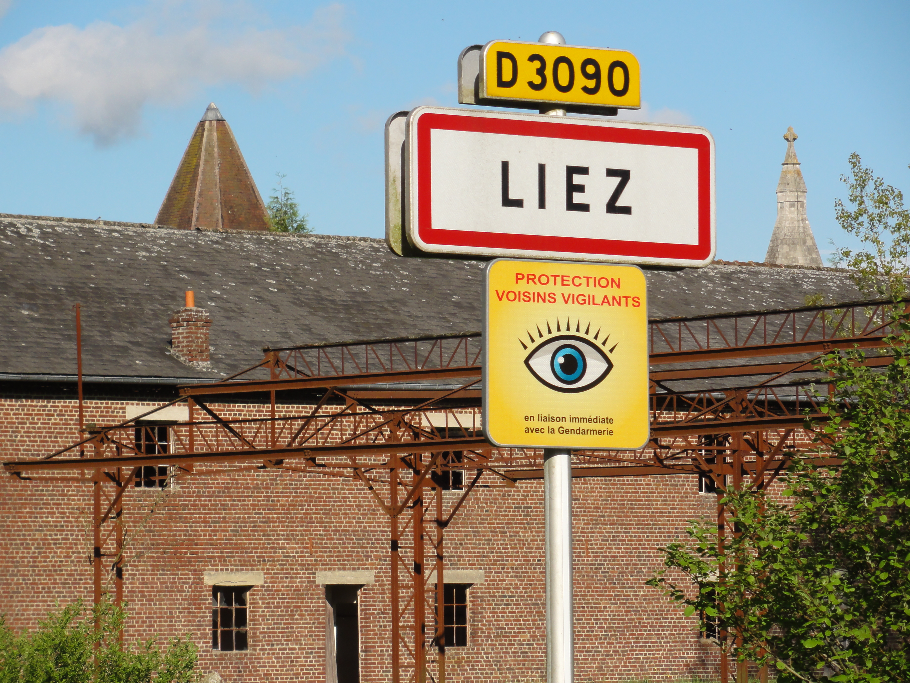 Liez (Aisne) city limit sign